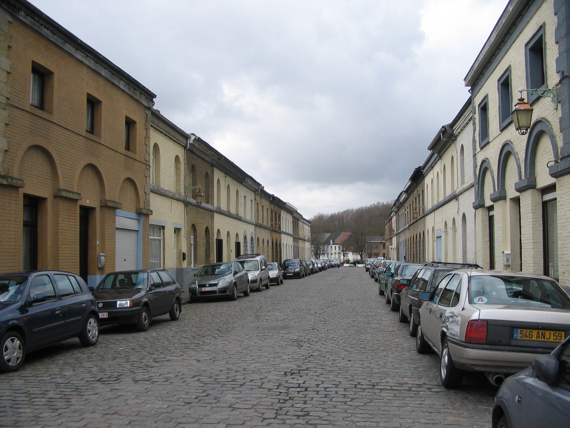 Street in Grand-Hornu mine site